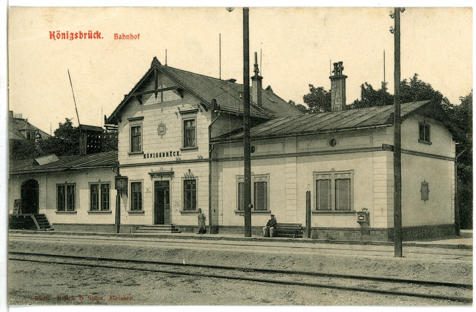 This postcard is from publisher Brück & Sohn in Meißen ( This postcard has a unique number 08940 and is available in a higher resolution at the publisher. This images was uploaded in a cooperation project between Wikipedians and the publisher.